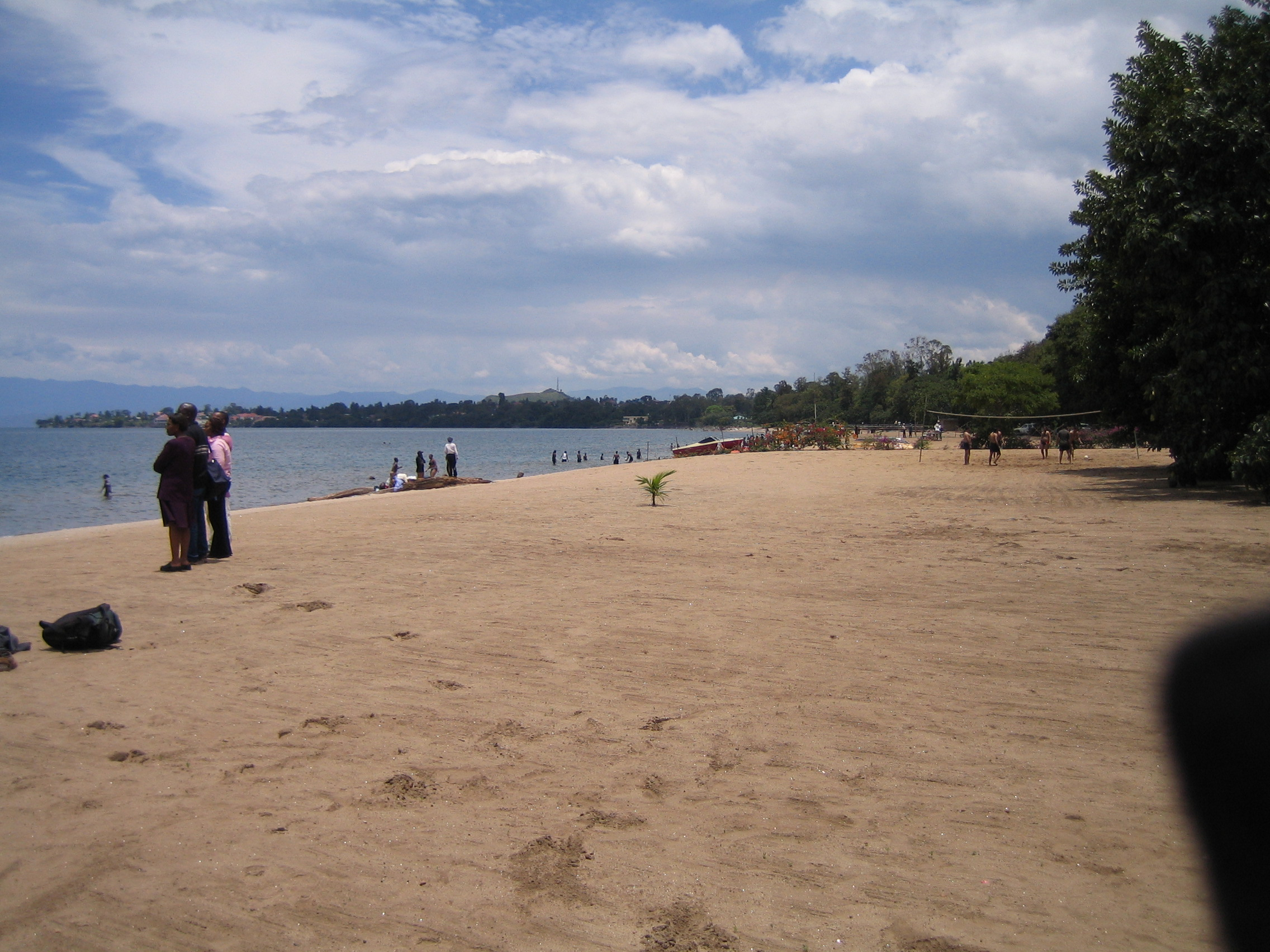 The beach on Lake Kivu at Gisenyi, Rwanda Taken by SteveRwanda